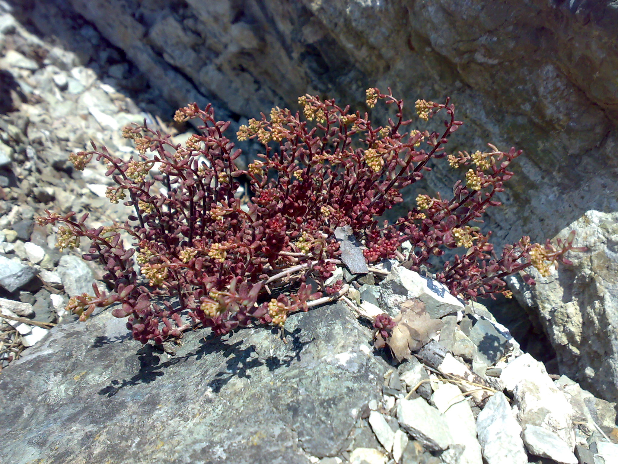 Sedum album, early June, Norway (Hurum)